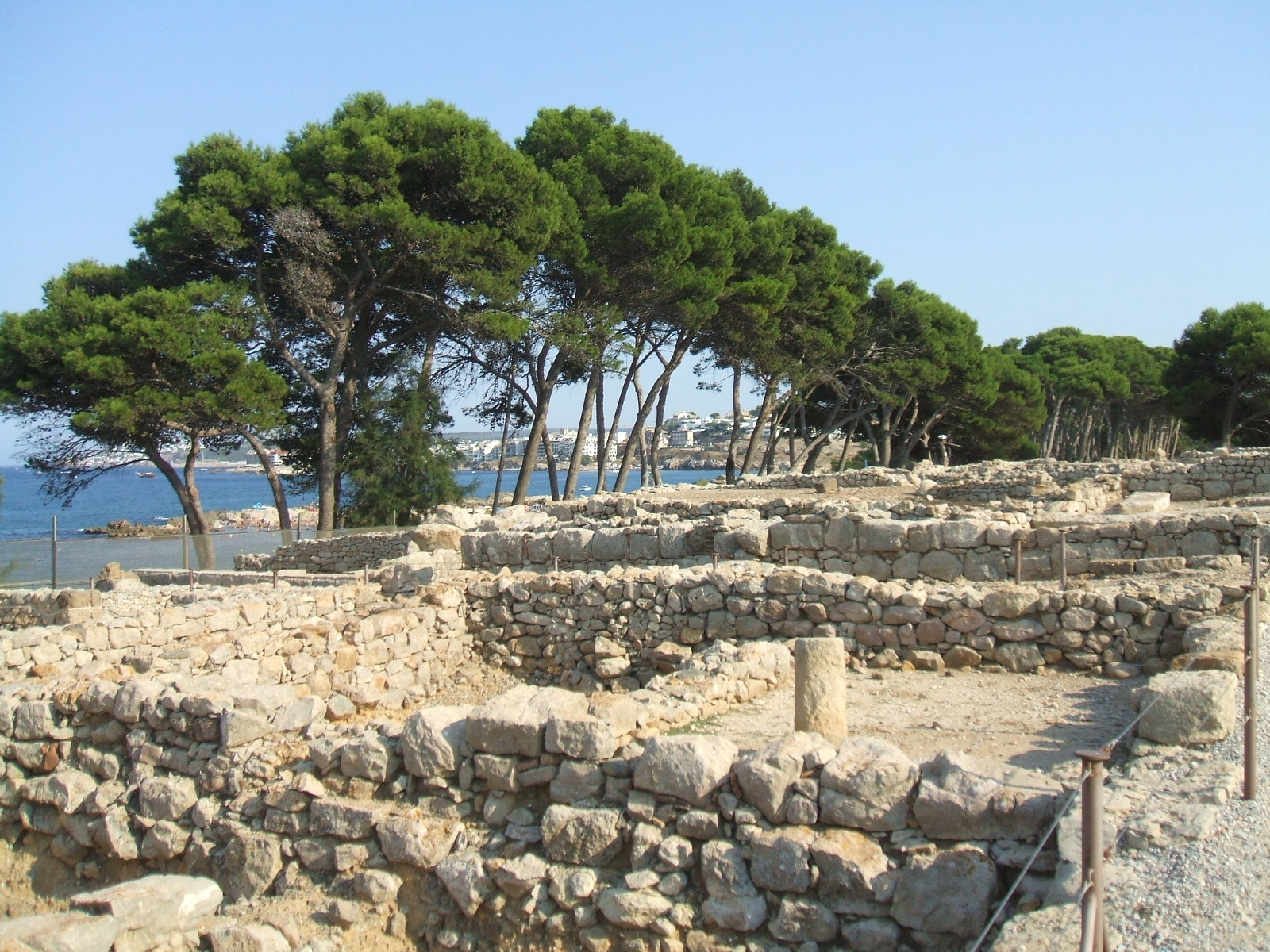 Empuries Archaeological Site (Catalunya, Spain) : Greek ruins of Neapolis ; House of the Peristyle.